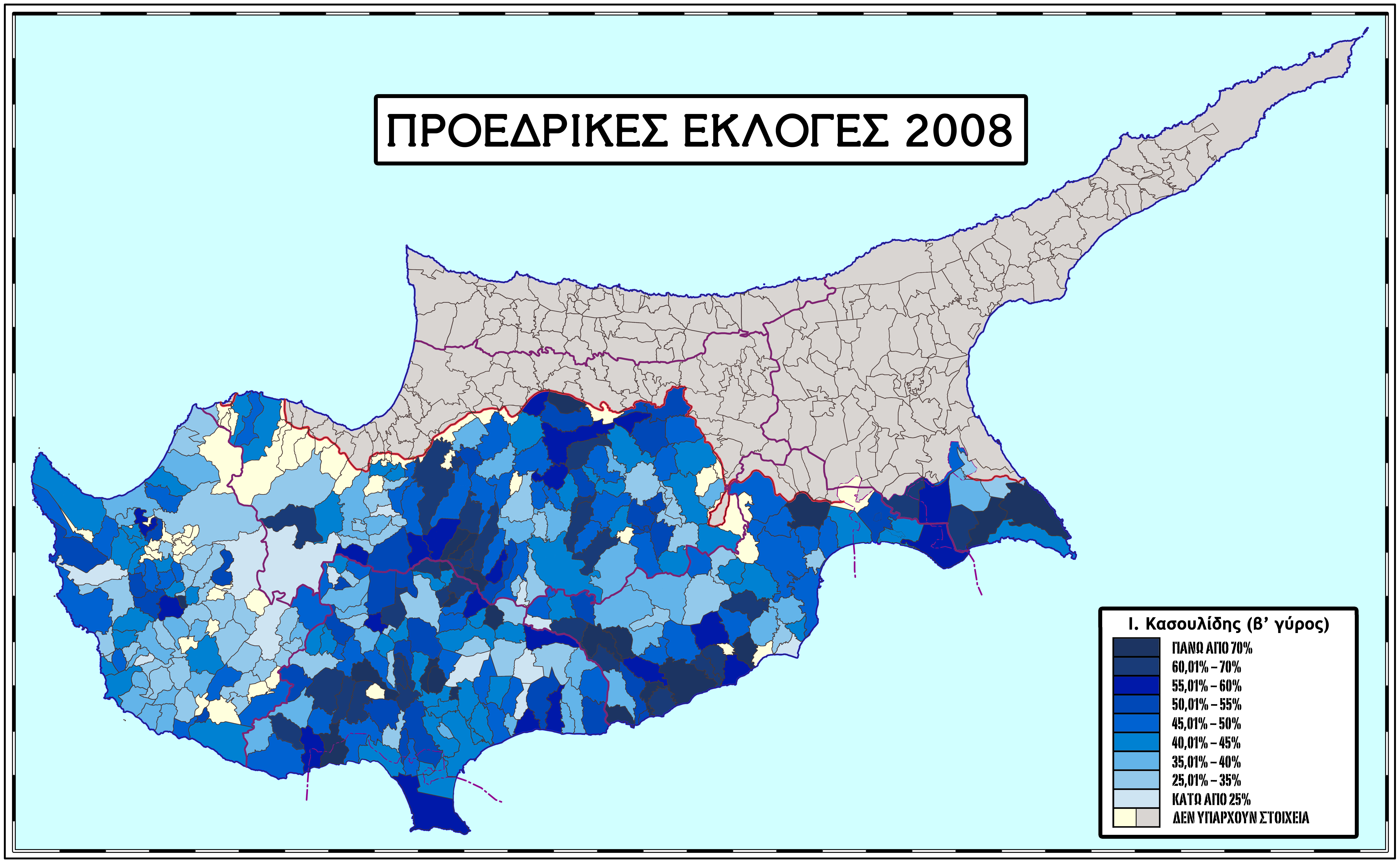 I. Casoulides' percentages during the second round of the presidential elections in Cyprus, 24 February 2008